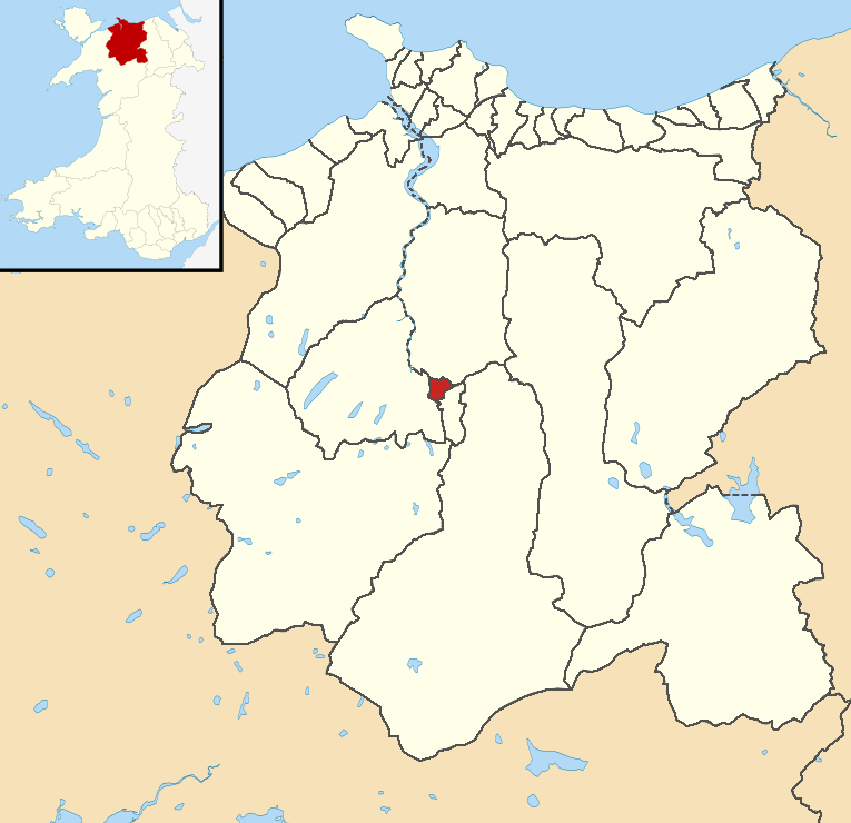 Location map of Gower electoral ward in Conwy County Borough, Wales, which covers part of the community (and town) of Llanrwst.